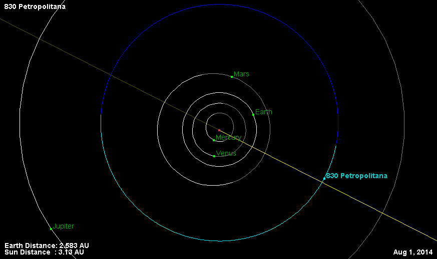 830 Petropolitana orbit and his position on 01 Aug 2014 (NASA Orbit Viewer applet)